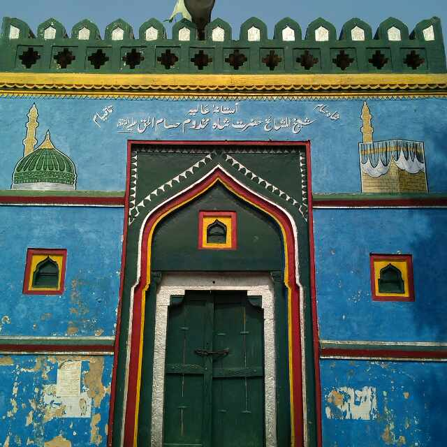 tomb of hazrat Makhdoom Husamudeen Manikpuri R.A